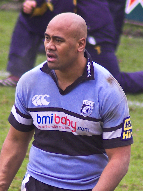 The rugby union player from New Zealand Jonah Lomu playing for Cardiff Blues